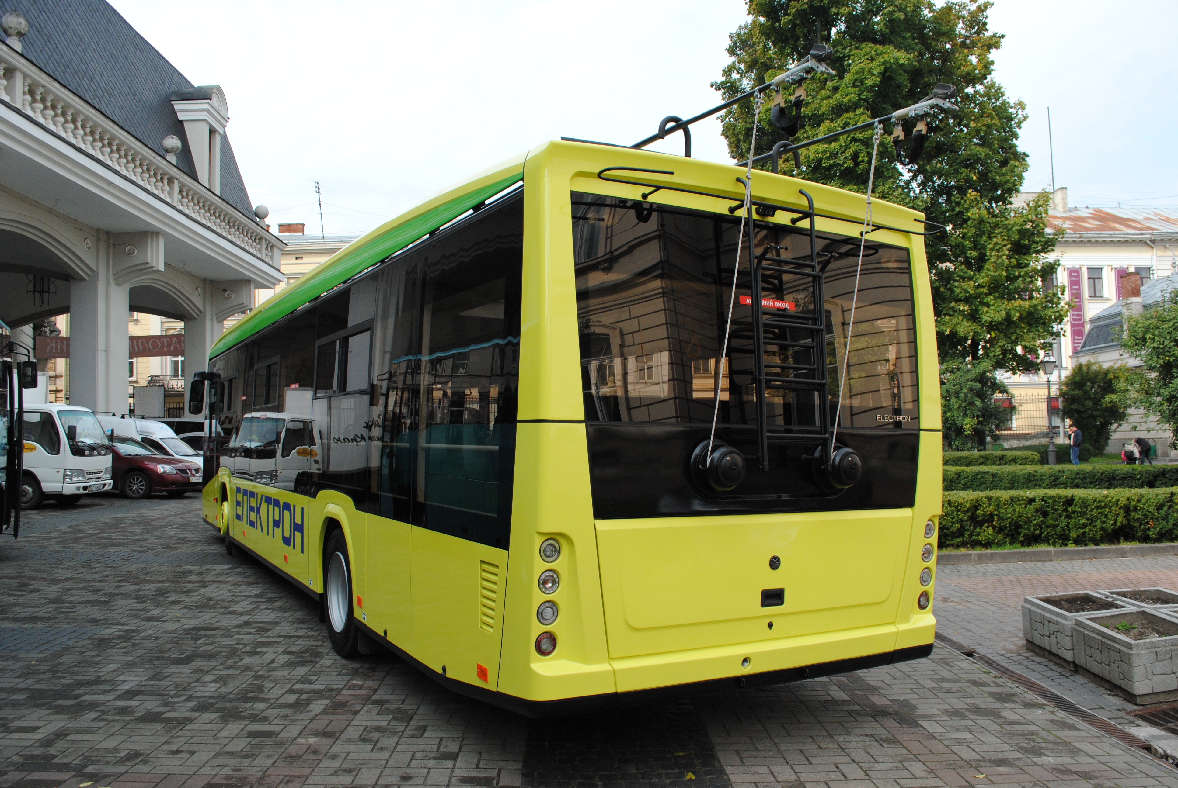 Electron T19 (T19101) trolleybus, built by Electrontrans plant (Lviv) on Lviv Tovarovyrobnyk Expo.